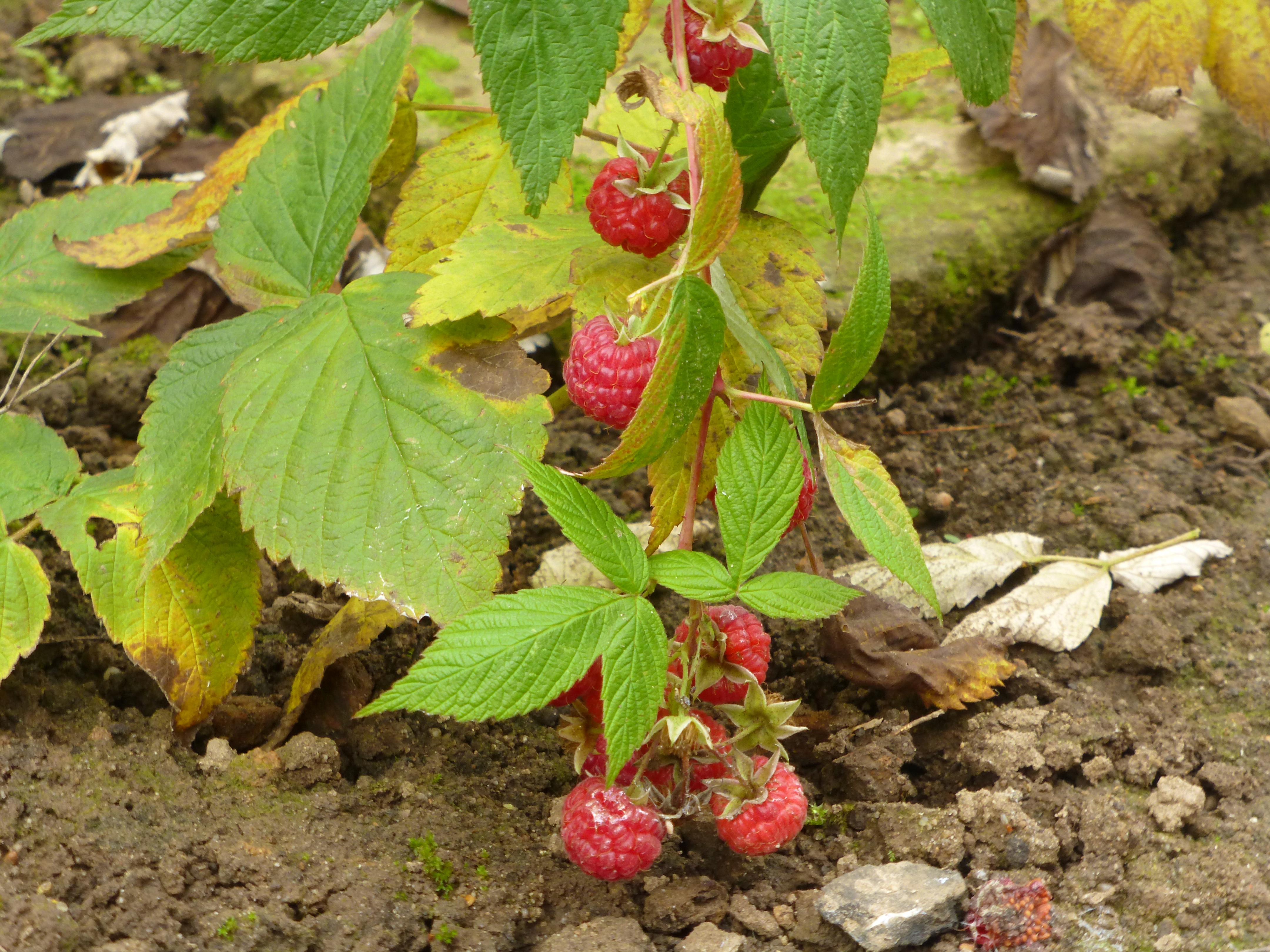 (European) Raspberries